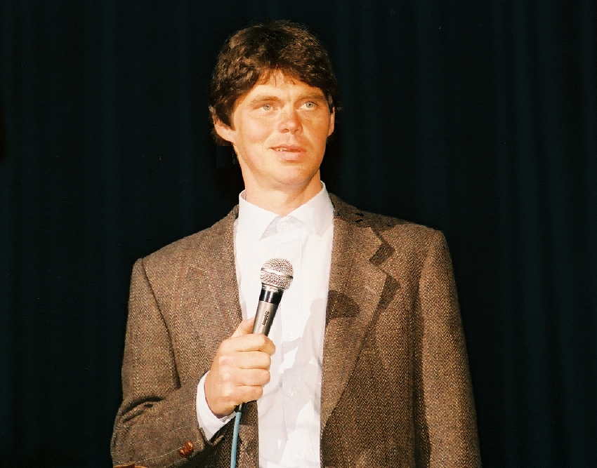 Comedian Rich Hall at the at Tower Theater in Upper Darby This was a WYSP-FM all day live radio broadcast promoting the upcoming "Hands Across America." event on May 25th, 1986 The event event featured appearances and interviews with people such as Dennis DeYoung (of STYX) / Rich Hall / Andrew Dice Clay / Yakof Smirnoff / Kevin Dubrow (Of Quiet Riot) / Cy Curnin (Of The Fixx) / Larry "Bud" Melman / Local Philly Bands "Bricklin", "Smash Palace", "Separate Checks", "The Sharks" and many other various local and national celebrities. Photo By Sam Cali.